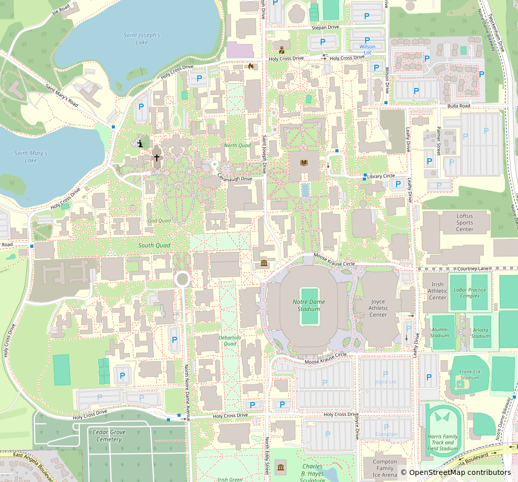 NotreDameLargeMap